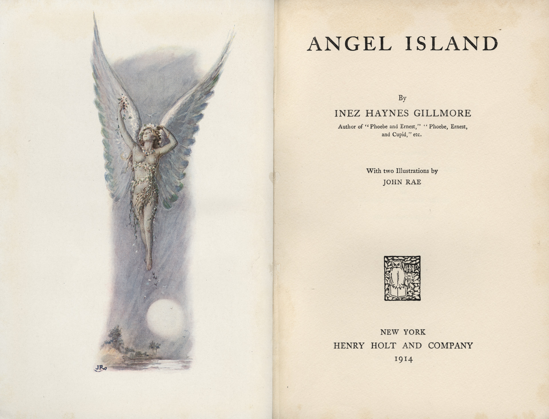 A group of shipwrecked sailors were castaway on an island inhabited by beautiful winged women. Title: Angel Island Creator: Inez Haynes Gillmore, 1873-1970 Contributor: Illustrated by John Rae, 1882-1963 Date: 1914 Published: New York: Henry Holt, 1914 Identifier: FN-26 angel island-frontispiece Format: Book Rights: Public domain Courtesy: Toronto Public Library . This image was featured in the Flight: A Thrilling History of an Idea exhibit in the TD Gallery of the Toronto Reference Library from July 13 to September 22, 2013. You can order order a print or high-resolution copy .